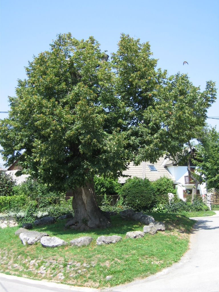 A village lime in Vrba, Slovenia.